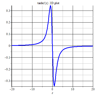 Tanhc'(z) 2D plot